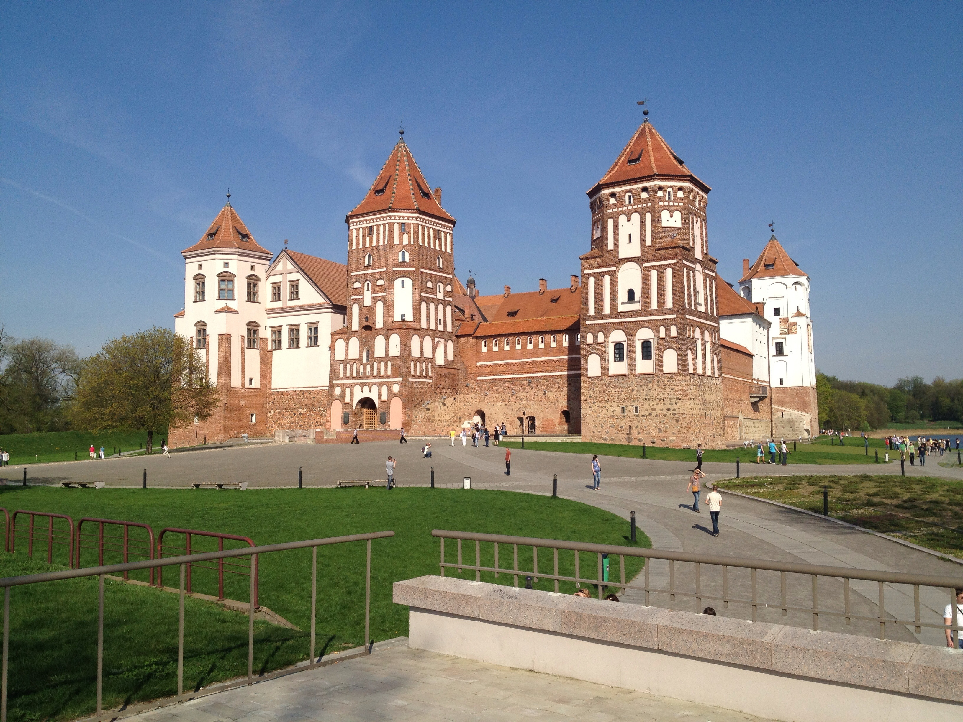 Mir Castle - newly built castle on historic ground.